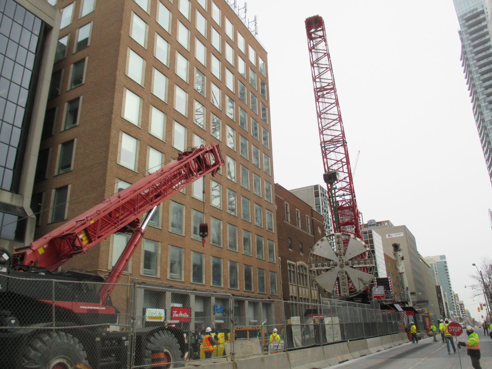 Tunnel Boring Machine "Don" was extracted in pieces starting on March 13, 2017. The first piece extracted (see photo) was the machine's cutting face.